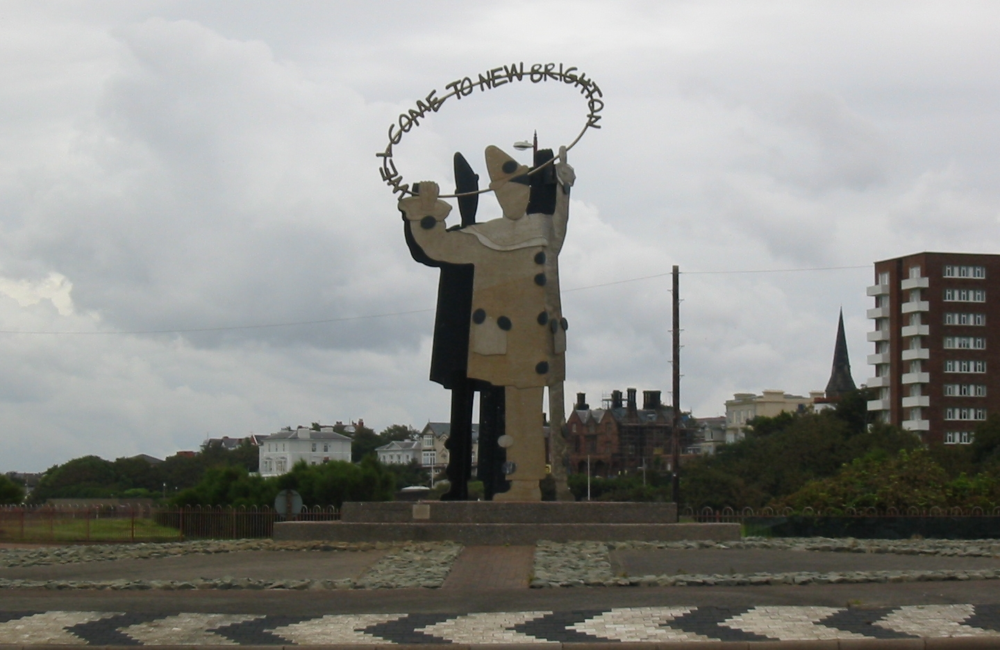 Welcome to New Brighton sculpture and sign on the roundabout at the junction of A554 King's Parade and Coastal Drive, New Brighton, Wirral, Merseyside, England.